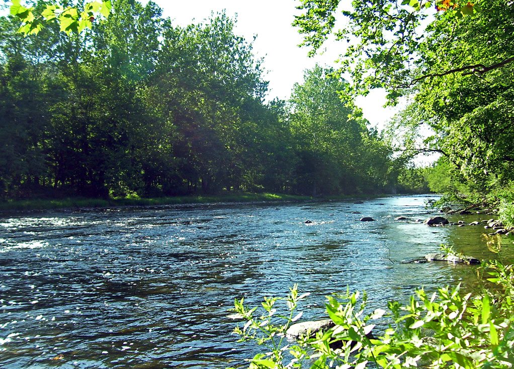 Photographed by Daniel Case on 2006-08-16 near the US 209 bridge.